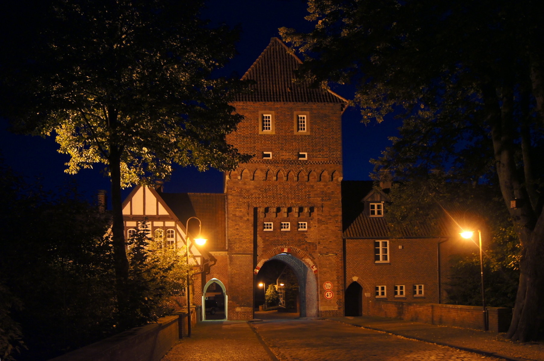 Only one of the former six city gates of Coesfeld in Germany has survived - the Walkenbrückentor. It was strongly damaged in World War II. Today the town museum ("Das Tor") is housed in the gate. This is a photograph of an architectural monument.